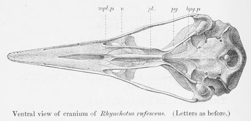 Skull of a tinamou